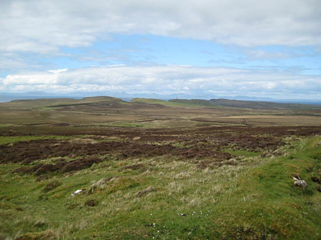 A wide boggy expanse Descending from Sgùrr Mòr there is a wide area of extremely wet bog to be negotiated before reaching firmer ground across the Kilmaluag River way to the north.